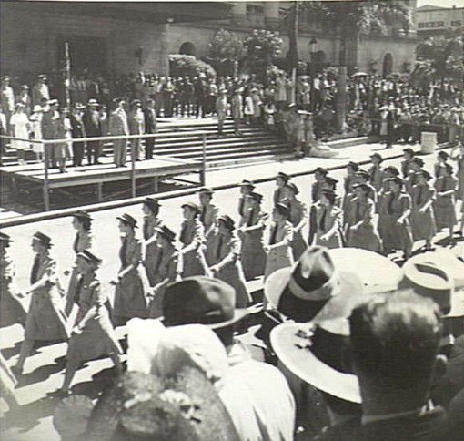 AWM Caption: BRISBANE, QUEENSLAND. 1945-03-24. AUSTRALIAN WOMEN'S ARMY SERVICE PERSONNEL FROM THE NORTHERN TERRITORY DRAFT PASS THE SALUTING BASE AT CITY HALL DURING THE VICTORY LOAN MARCH. THE SALUTE WAS TAKEN BY MAJOR-GENERAL V.P.H. STANTKE, QUEENSLAND LINES OF COMMUNICATION AREA, (3). IDENTIFIED PERSONNEL ARE:- CAPTAIN N. JANSSEN, ACTING ASSISTANT CONTROLLER, AUSTRALIAN WOMEN'S ARMY SERVICE, (1); MAJOR M.C. ROCHE, ASSISTANT CONTROLLER, AUSTRALIAN ARMY MEDICAL WOMEN'S SERVICE, (2).